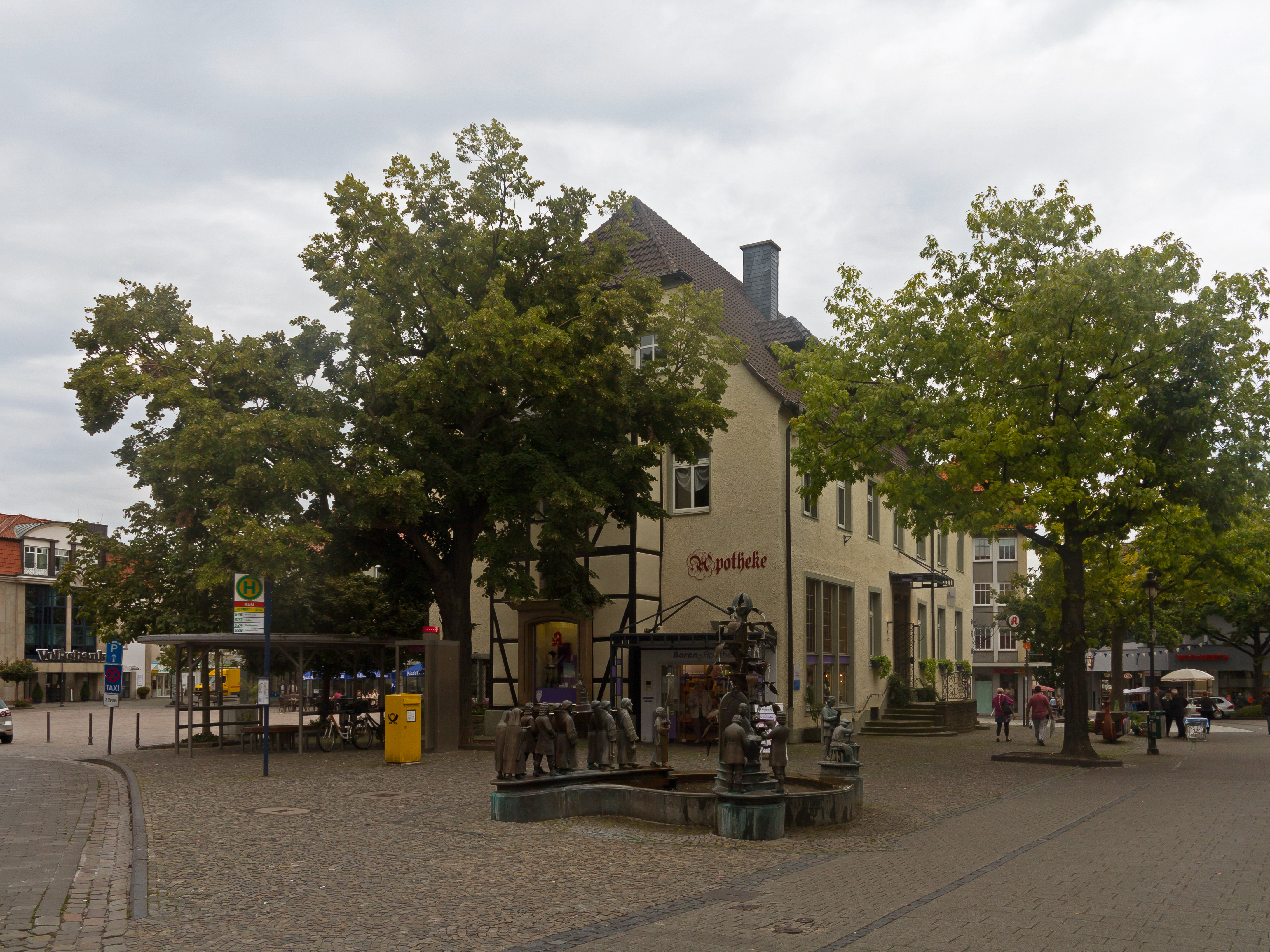 Werl, sculpture in front of Marien Apotheke This is a photograph of an architectural monument., no. 175